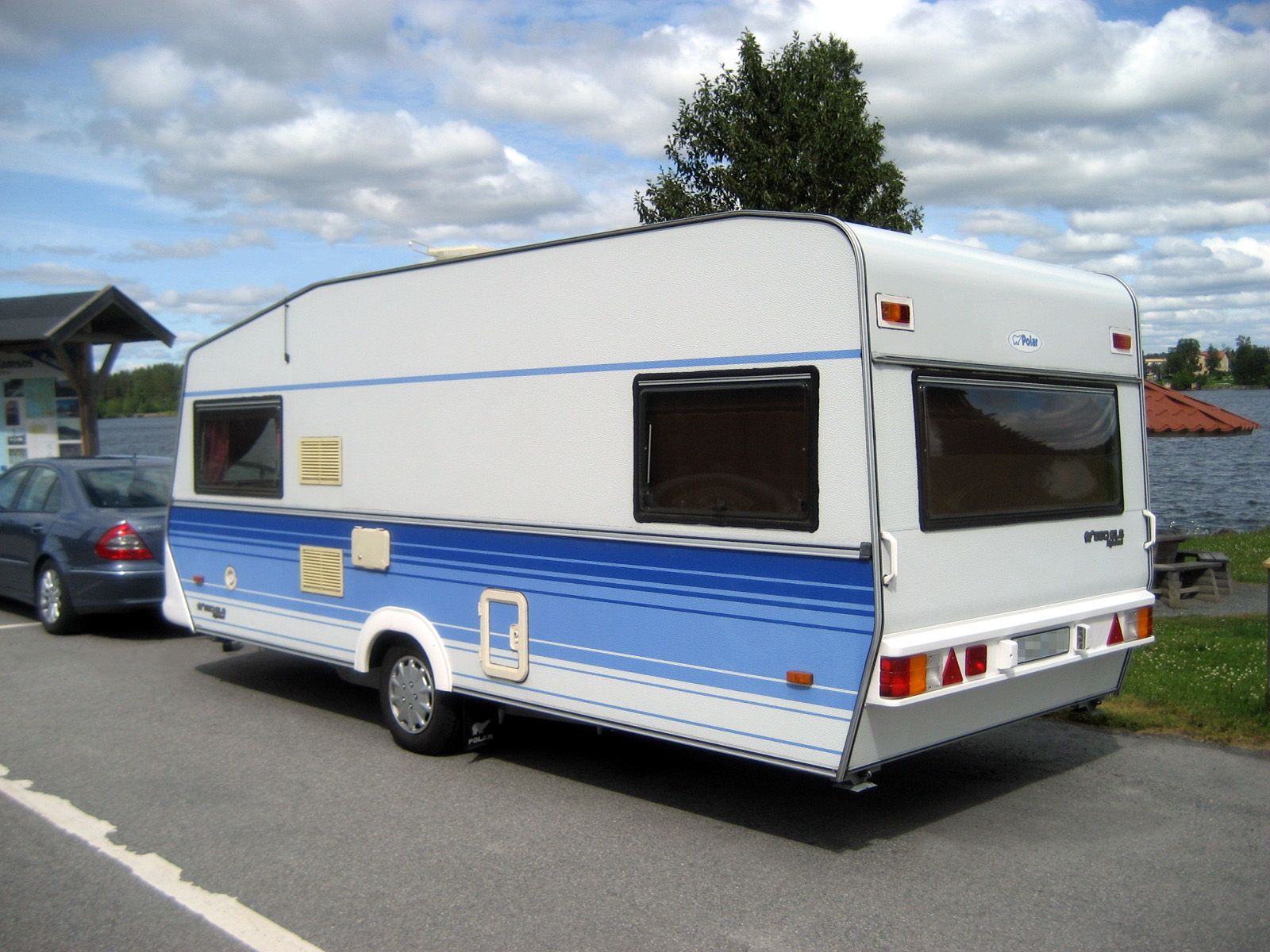 A Polar 550 GLS travel trailer.